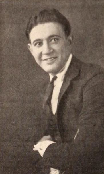 Actor Richard Dix, on page 68 of the April 16, 1921 Exhibitors Herald.